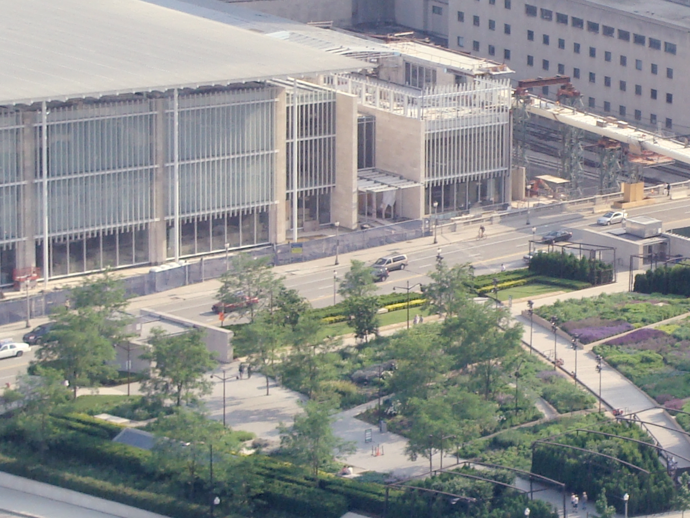 The Lurie Garden, South Exelon Pavilions, New Wing of the Art Institute of Chicago, and the Nichols Bridgeway from The Buckingham